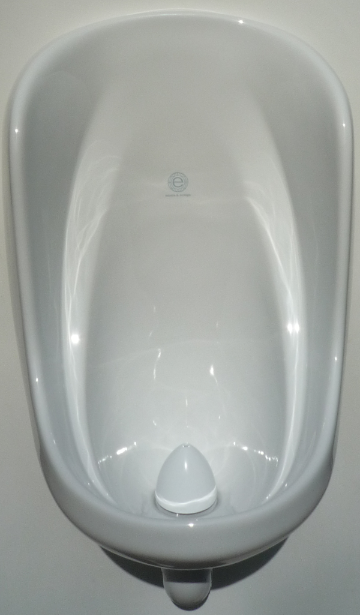 Waterless urinal - Espace Ecologie